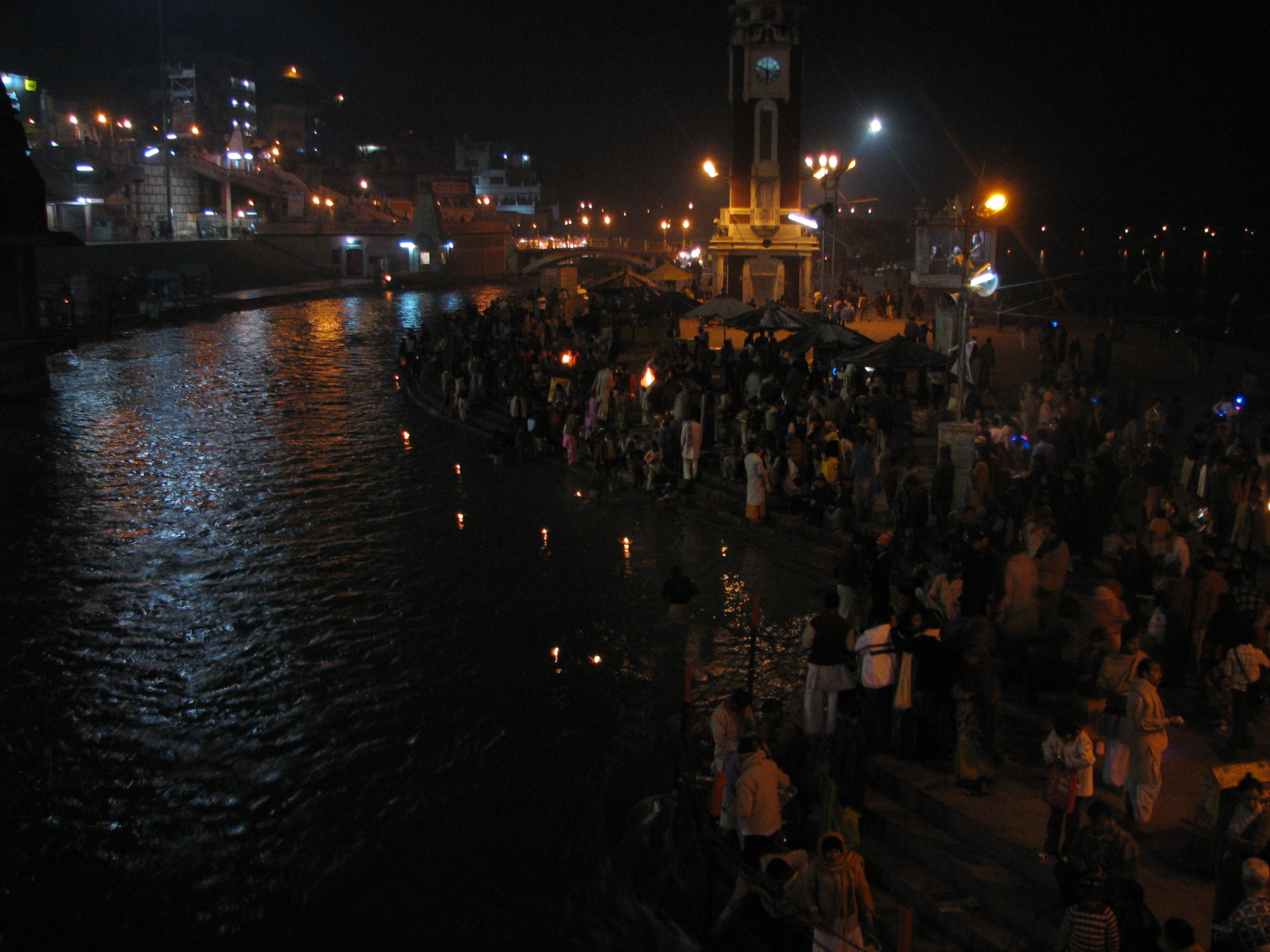 Really hard to capture, the sunset pujas on the Ganga in Haridwar. It was great to be able to watch, absorb and be a part, apart from the predatory Brahman priests guilt-tripping foreigners into paying exorbitant dontations for prayers for family, "how much is the well-being of your family worth" they literal push. All I wanted was to share in this holy ceremony and maybe put my own litle leaf and flower boat into the holy river, offering a few prayers of my own to this revered place. But dollar signs always get in the way... sigh. It was lovely other than that.